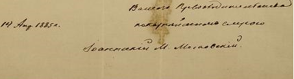 Autograph of Joannicus (Ivan Maksimovich Rudnev), Metropolitan of the Russian Orthodox Church